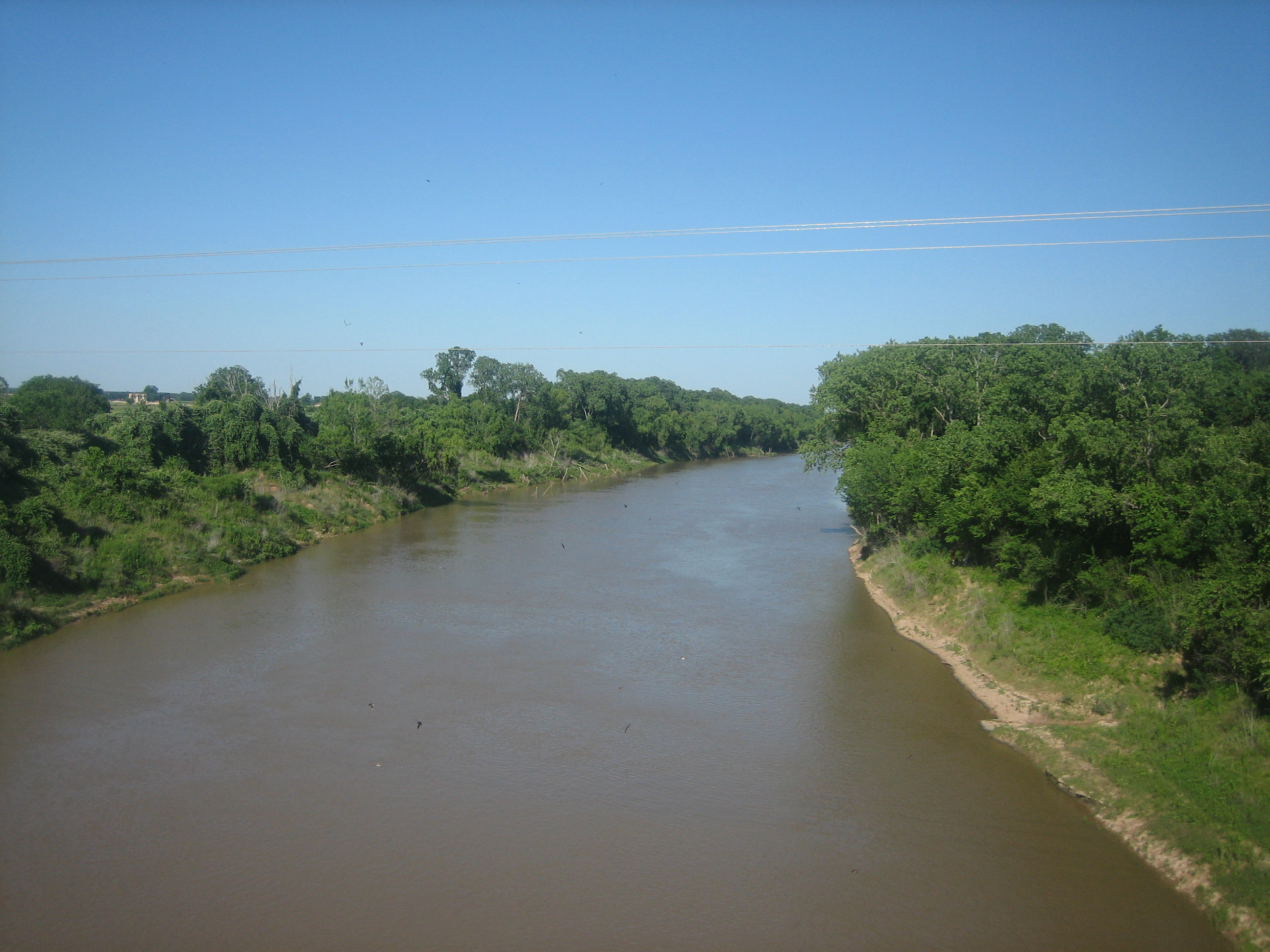 I took photo on May 19, 2009.Billy Hathorn (talk) 03:20, 31 May 2009 (UTC)